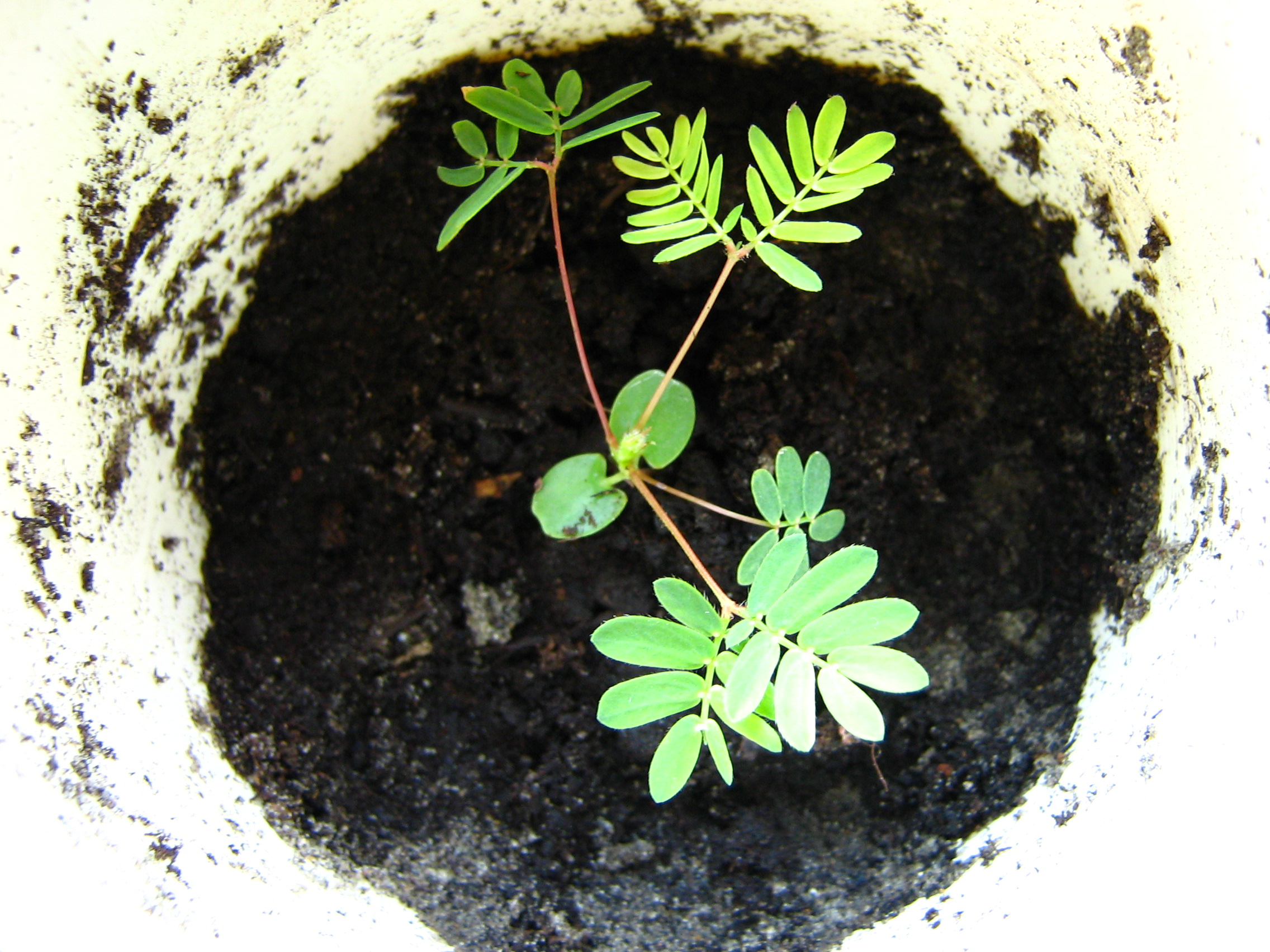 Photo, showing the growing of leaves. First 2 thick leaves (in the middle) come out of the seed, then a leave with 6 small leaves (on the right), after that a leave with most of the time 2x6 small leaves (upper-left), after that a leave with often 2x8 small leaves. After that the leaves are different and the number of small leaves depends on the conditions, but the number increases while the plant gets bigger.